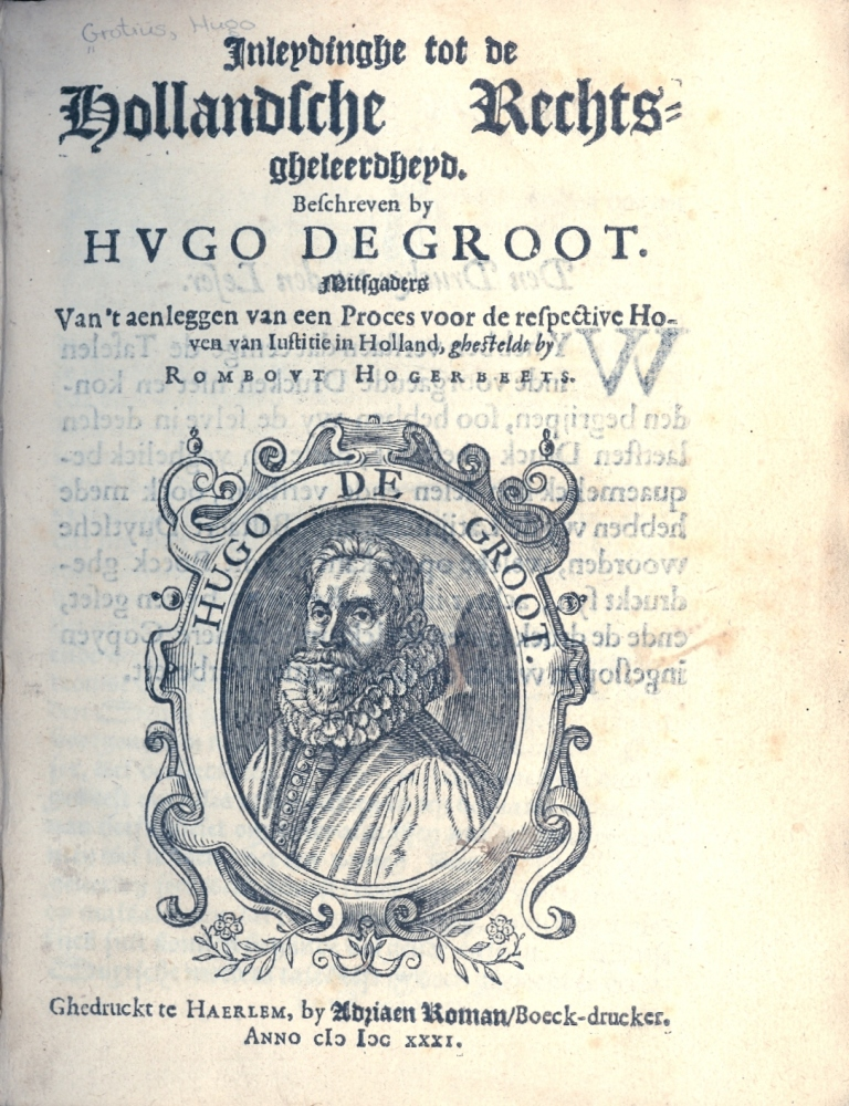 Source: Hugo Grotius (1583-1645), INLEYDINGHE TOT DE HOLLANDSCHE RECHTS-GHELEERDHEYD (Haerlem : Adriaen Roman, 1631), call no. Neth 46 G91 1631a.